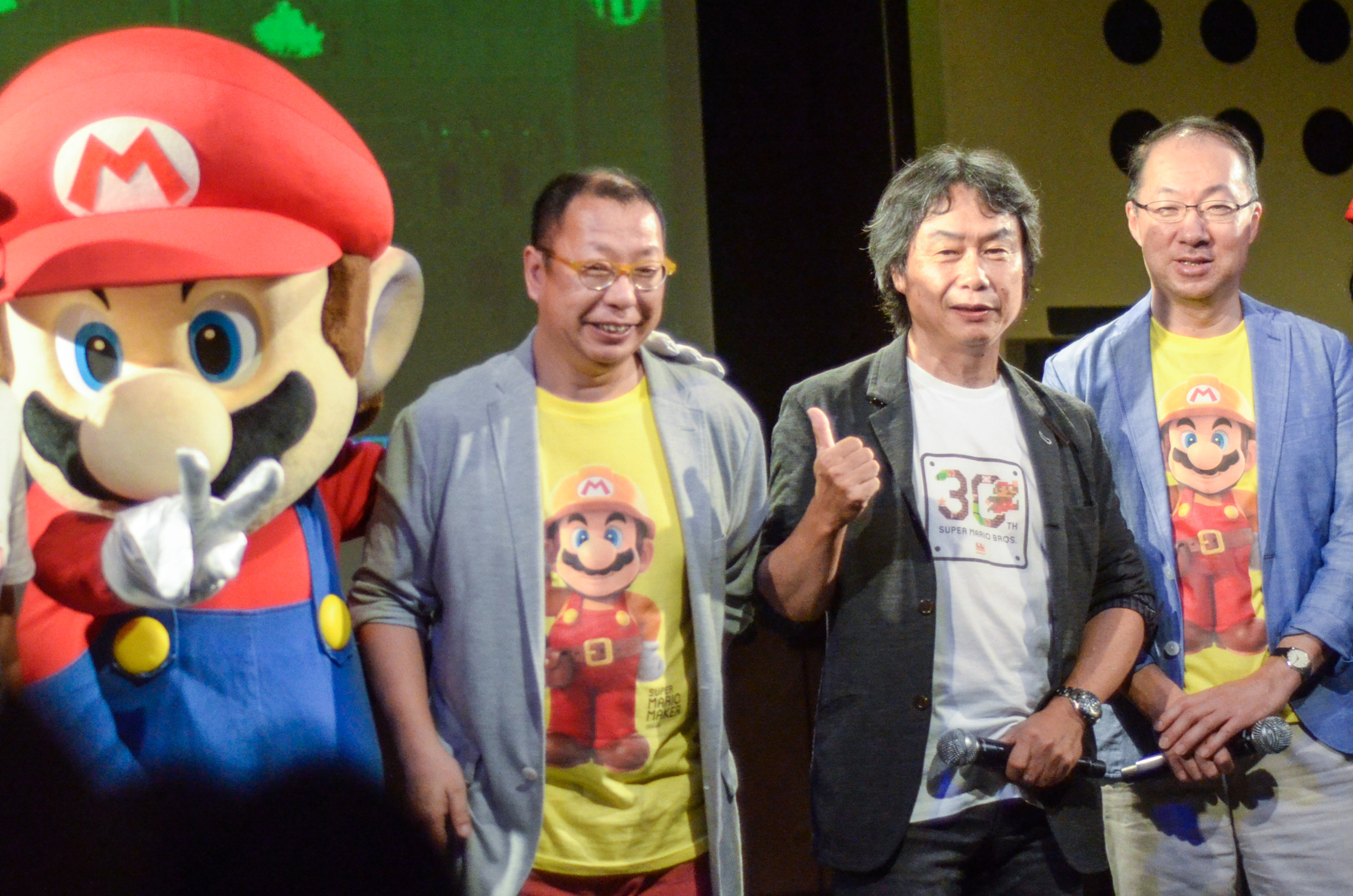 Takashi Tezuka, Shigeru Miyamoto and Koji Kondo - September 13th 2015 at the Super Mario 30th Anniversary Festival in the Club Music Exchange, Shibuya, Tokyo